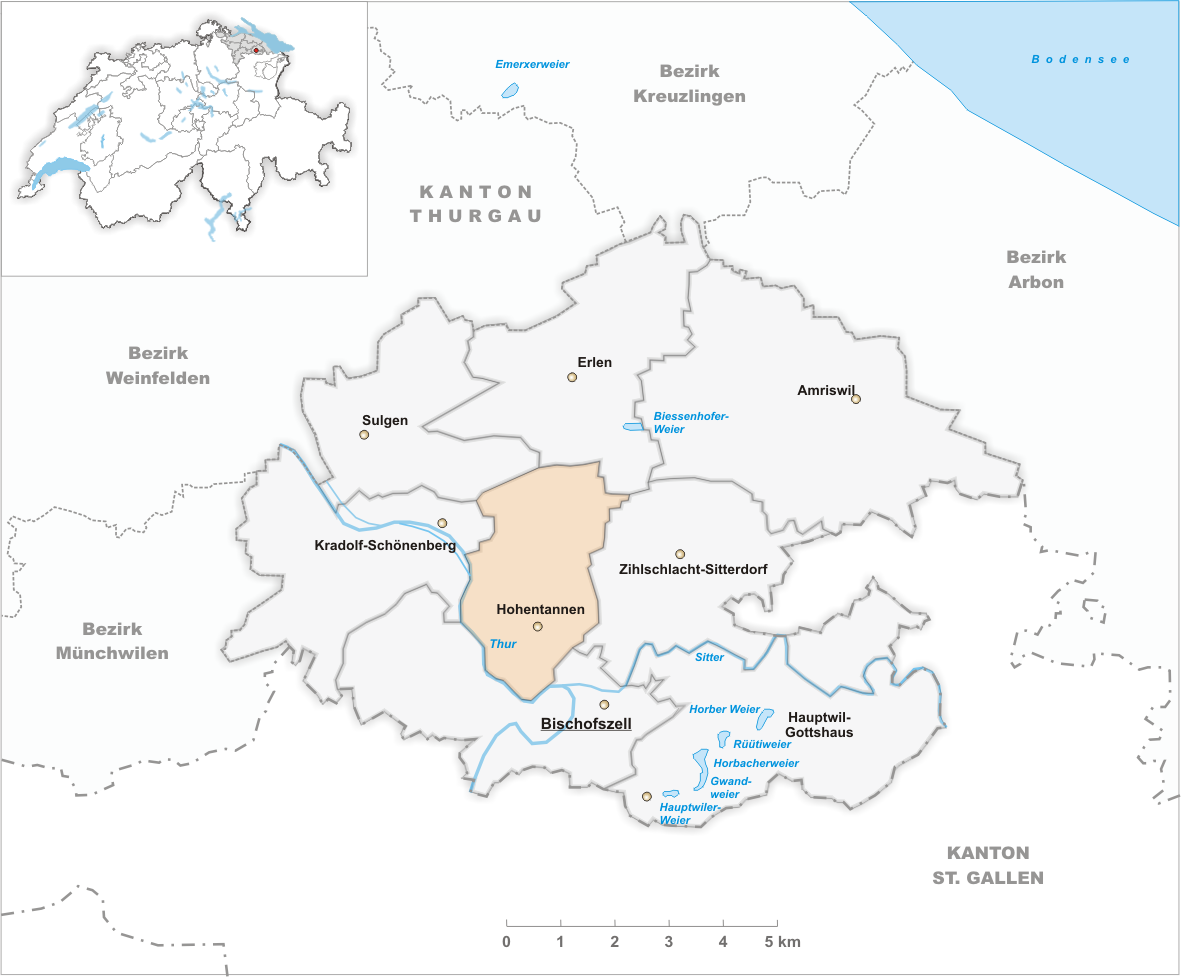 Municipality Hohentannen